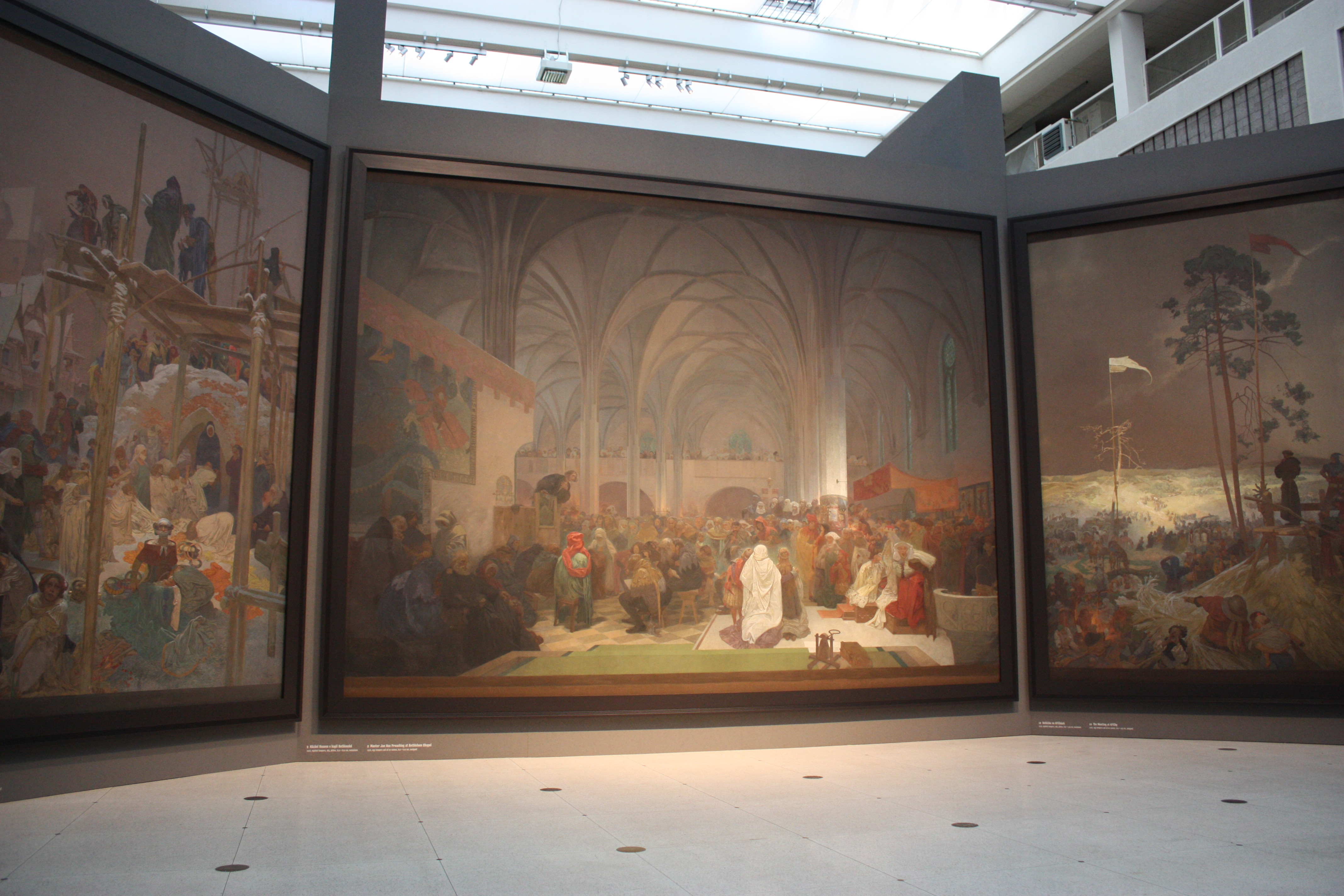 The Slav Epic by Alfons Mucha as seen in 2012 in Veletržní palác of National Gallery in Prague.